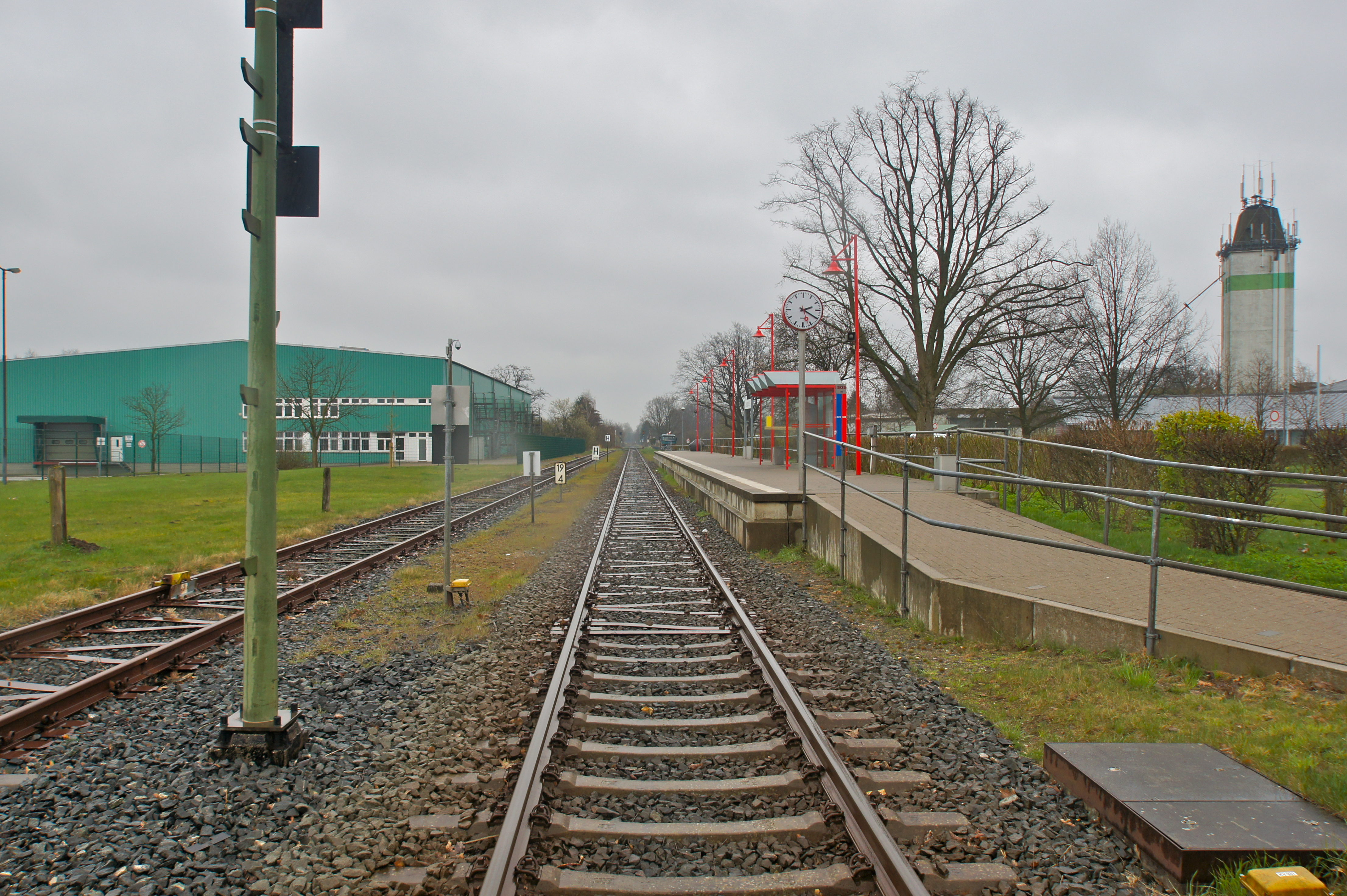 Alveslohe, Germany: Railway station